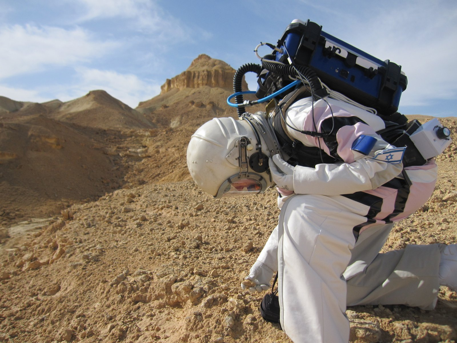 Israeli mars analog mission astronaut (Ramonaut) during EVA in the D-MARS01 mission